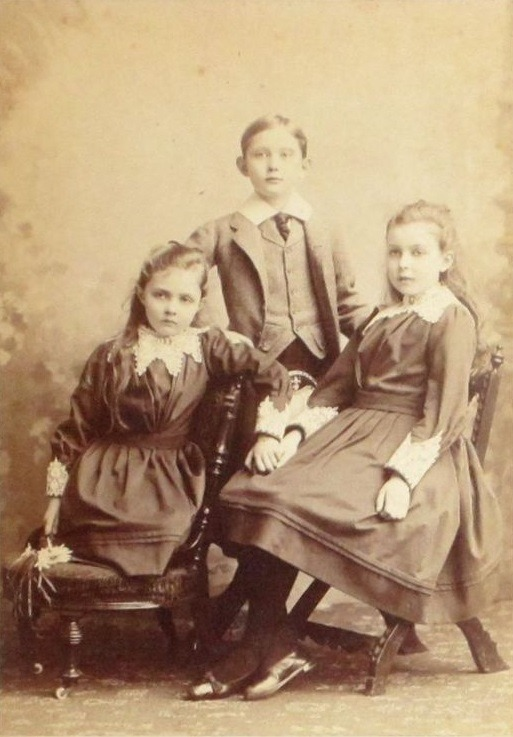 Princess Patricia, Prince Arthur and Princess Margaret of Connaught, children of Prince Arthur, Duke of Connaught and his wife Princess Louise Margaret of Prussia.